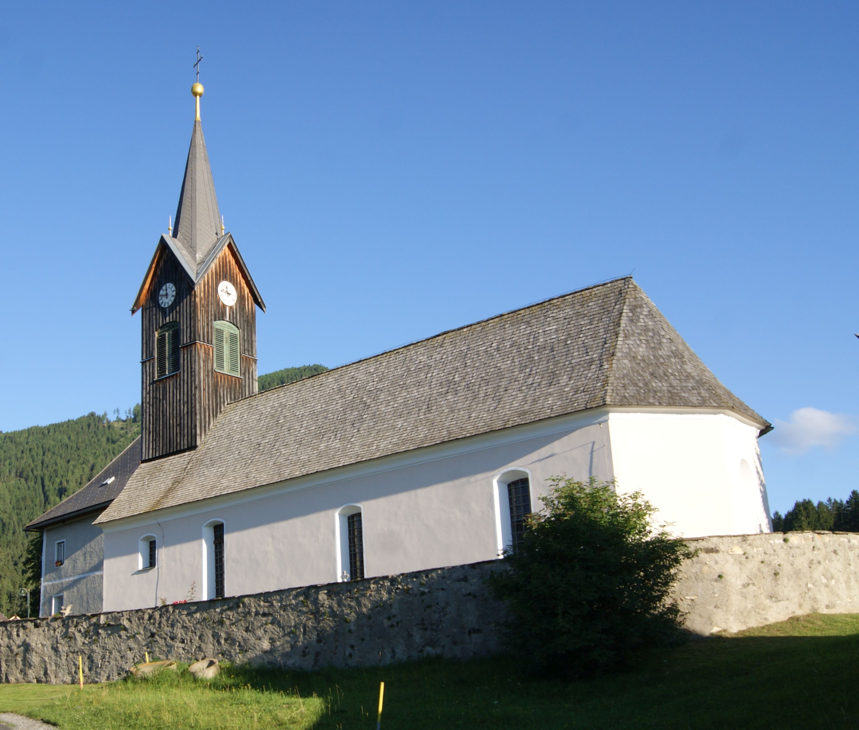 Church in Zeutschach, Styria, Austria.